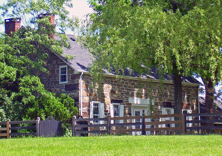 Photographed by Daniel Case 2007-06-06